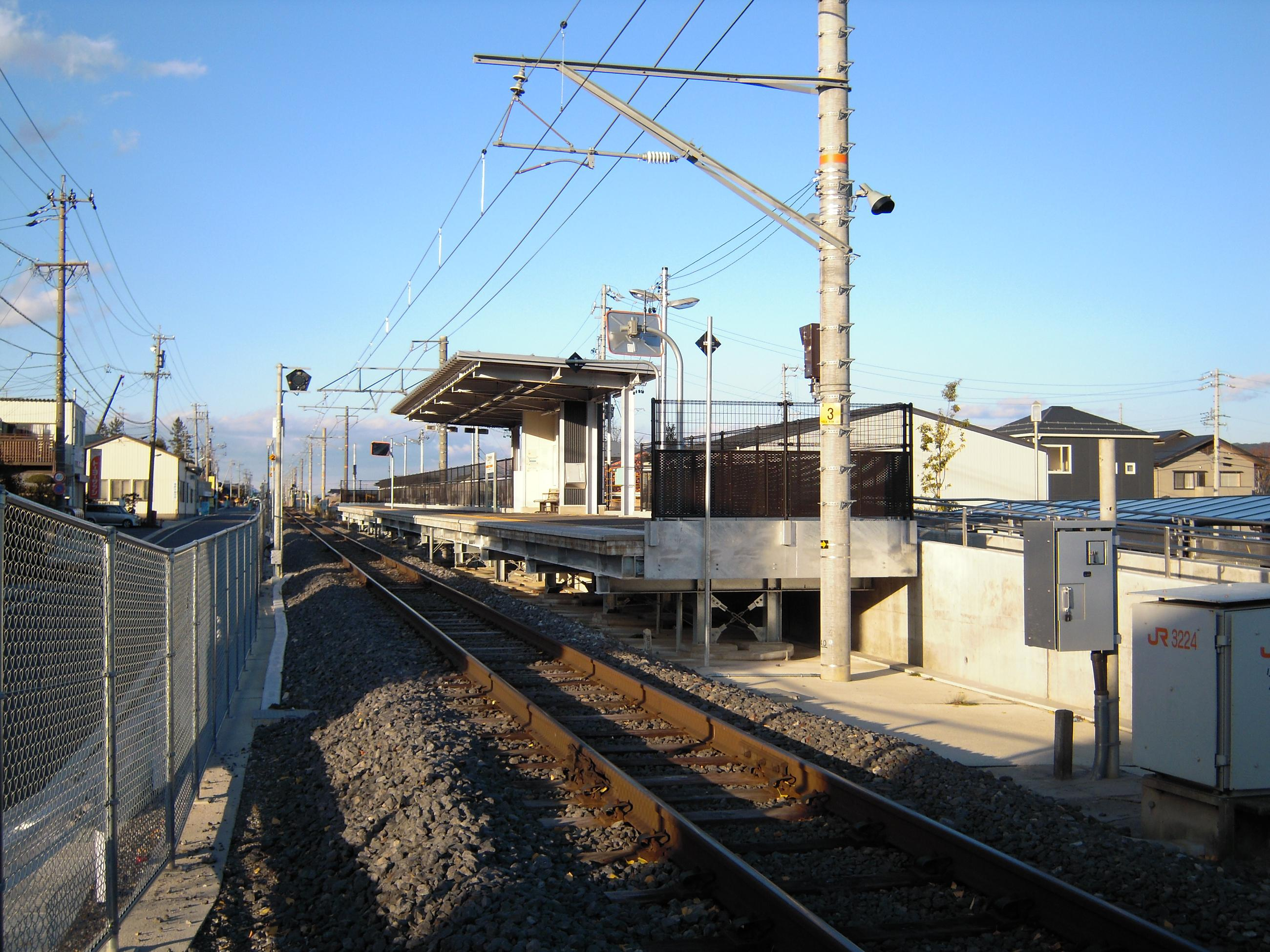 JR Iida Line Komachiya Station from the level crossing next to the station